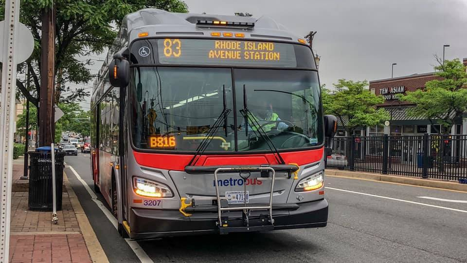 WMATA 2019 New Flyer XN40 3207 on Route 83